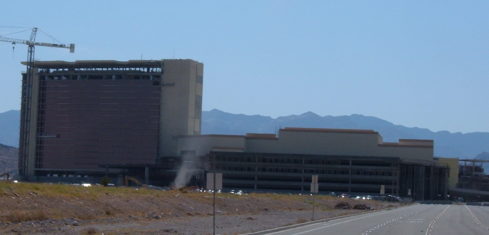 Red Rock Resort Spa and Casino Clark County during construction. Background is the Spring Mountains. Foreground is a small dust devil just forming. Photo by Vegaswikian on July 14, 2005.